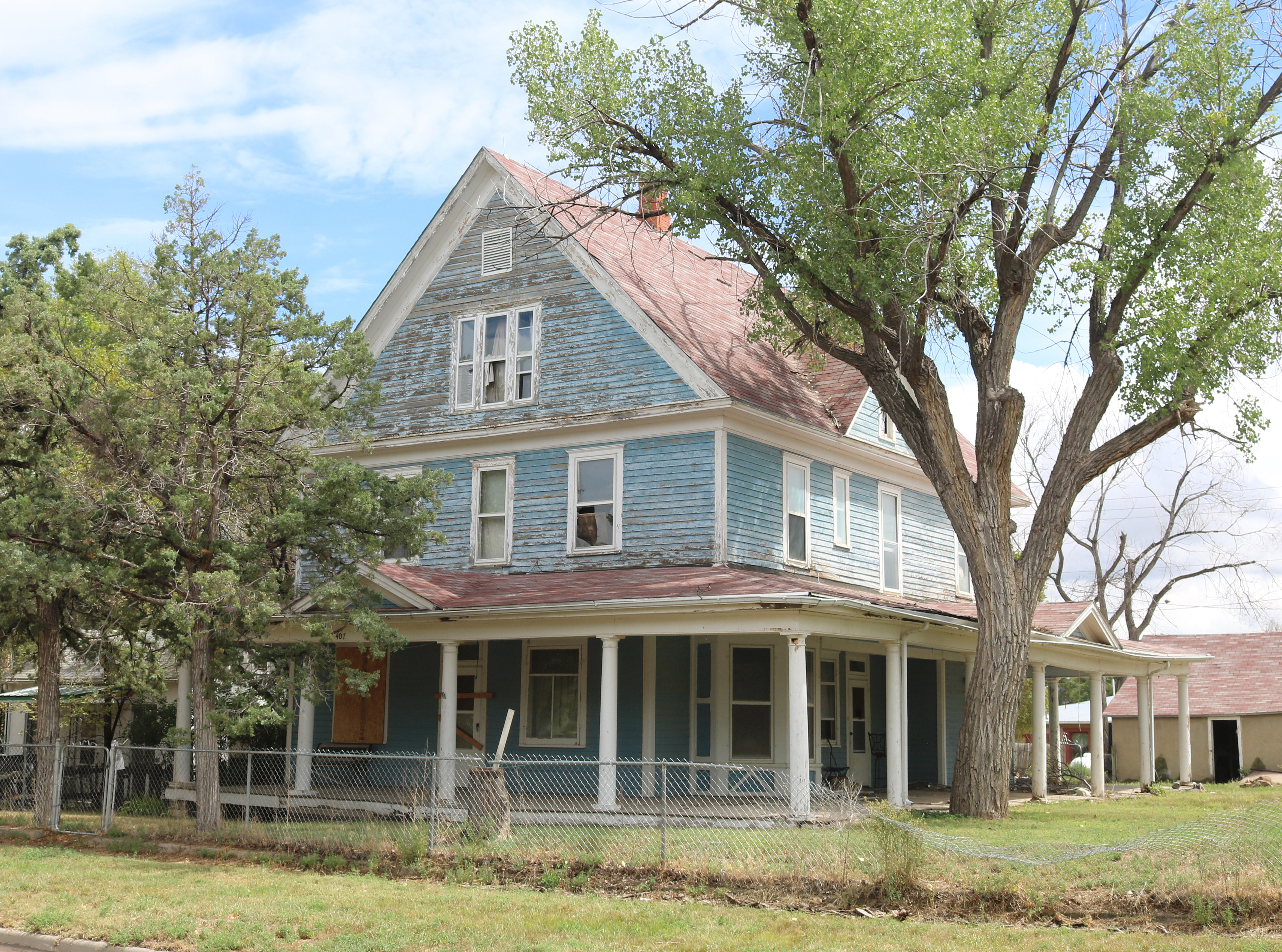 The Arthur and Ellen Colgan House, located at 407 Third Street in Edgemont, South Dakota. The property is listed on the National Register of Historic Places.